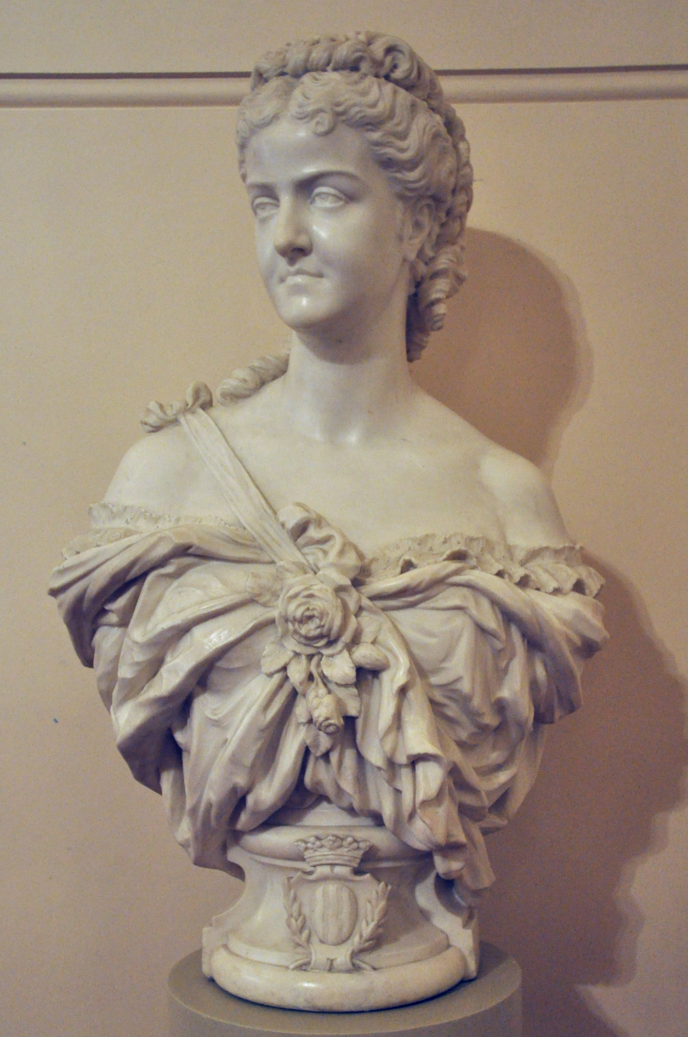 London, Royal Opera House, Covent Garden, bust of Adelina Patti, by Ludovic Durand (1832-1905), 1869